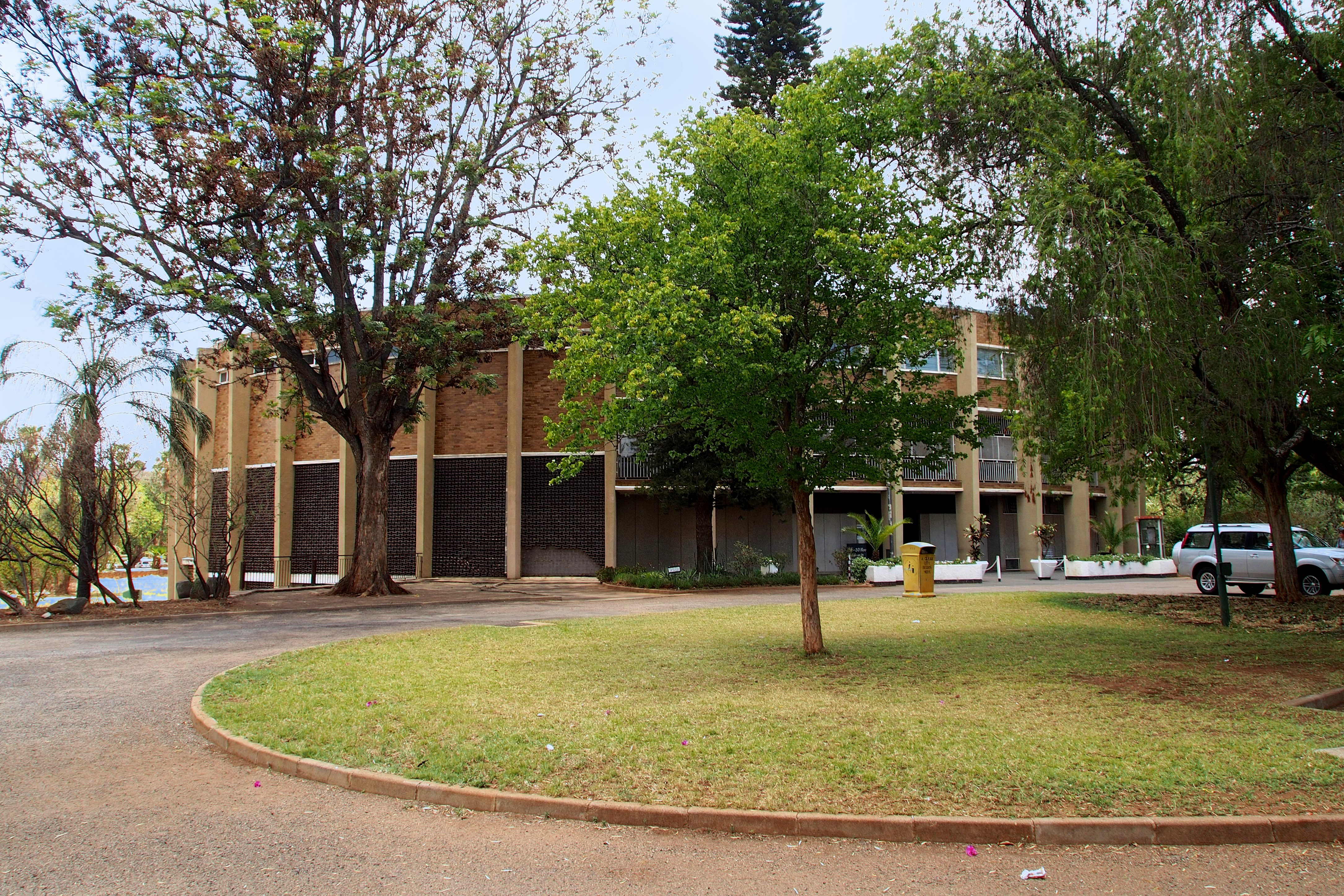 The building of the Natural History Museum of Zimbabwe in Bulawayo